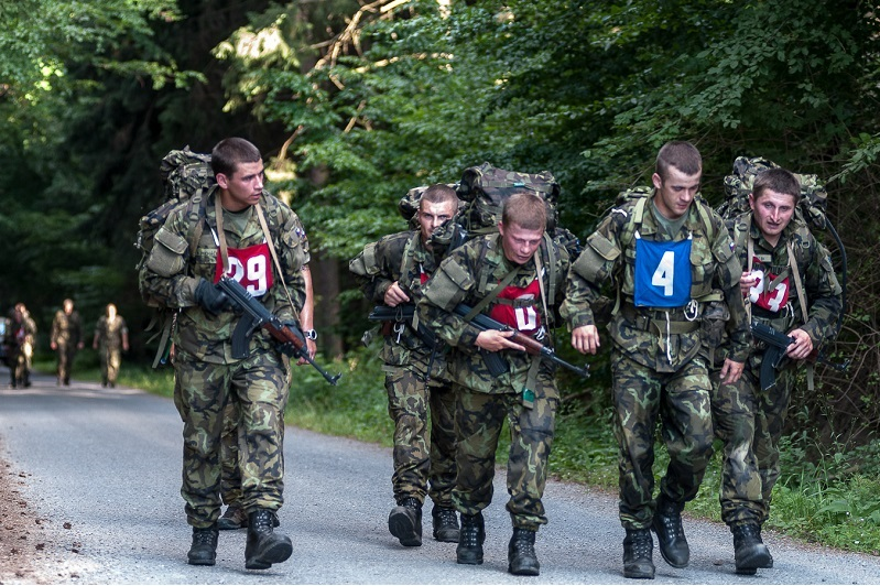 Selection of the 43rd Airborne Battalion (CZE), 10 km run